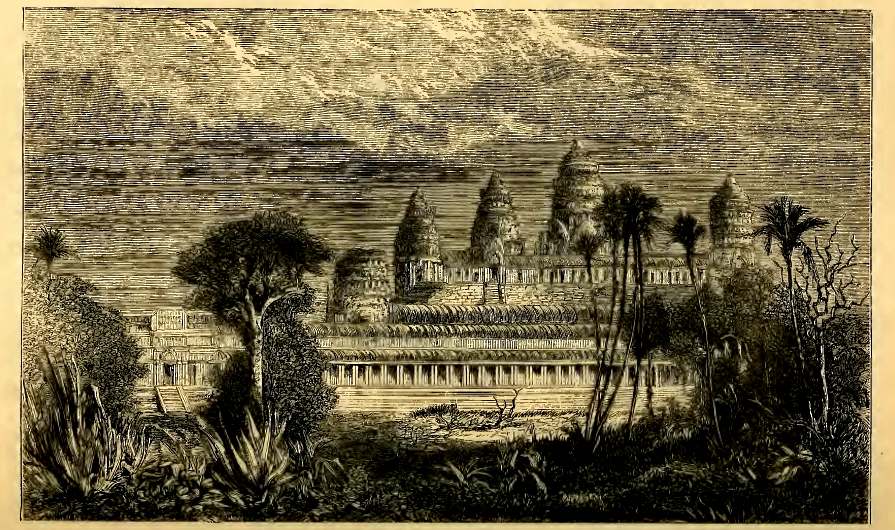 Drawing of Angkor Wat by Henri Mouhot